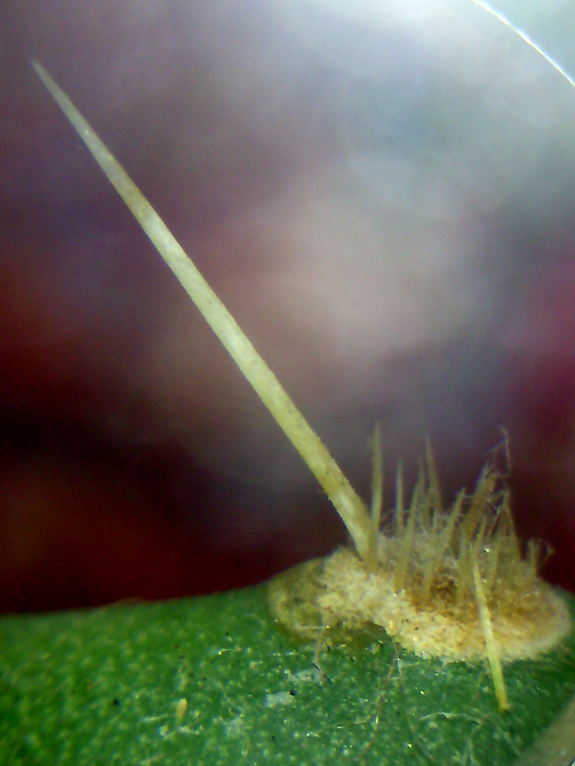 Opuntia cactus spine and glochids that are derived from leaves, barbed and penetrate skin easily. Magnification X20